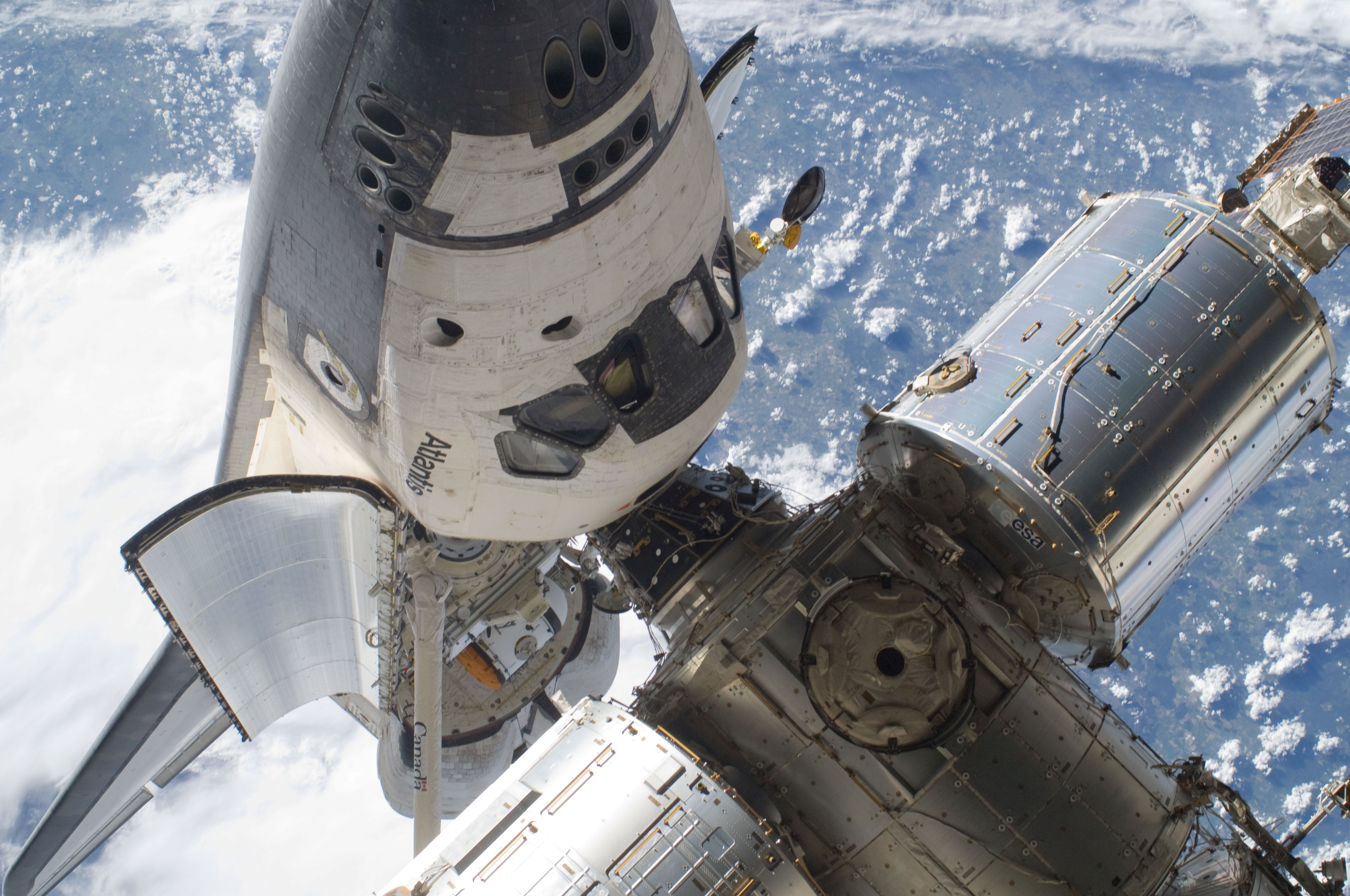 This image features the space shuttle Atlantis's cabin and forward cargo bay and part of the International Space Station while the two spacecraft remain docked, during STS-132's flight day four extravehicular activity of astronauts Garrett Reisman and Steve Bowen (both out of frame). Though three sessions of extravehicular activity (EVA) will involve only three astronauts (two on each occasion) who actually leave the shirt-sleeve environments of the two docked spacecraft, all twelve astronauts and cosmonauts on the two combined crews have roles in supporting the EVA work.